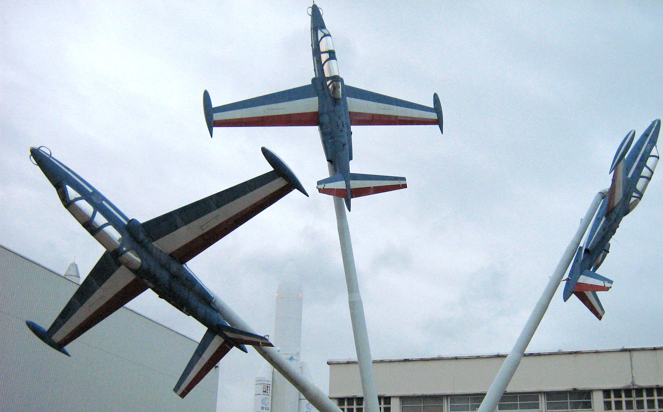 Displays of aircraft and spacecraft at the Musée de l'Air et de l'Espace (Air & Space Museum), Le Bourget, Paris, France, in September 2008.